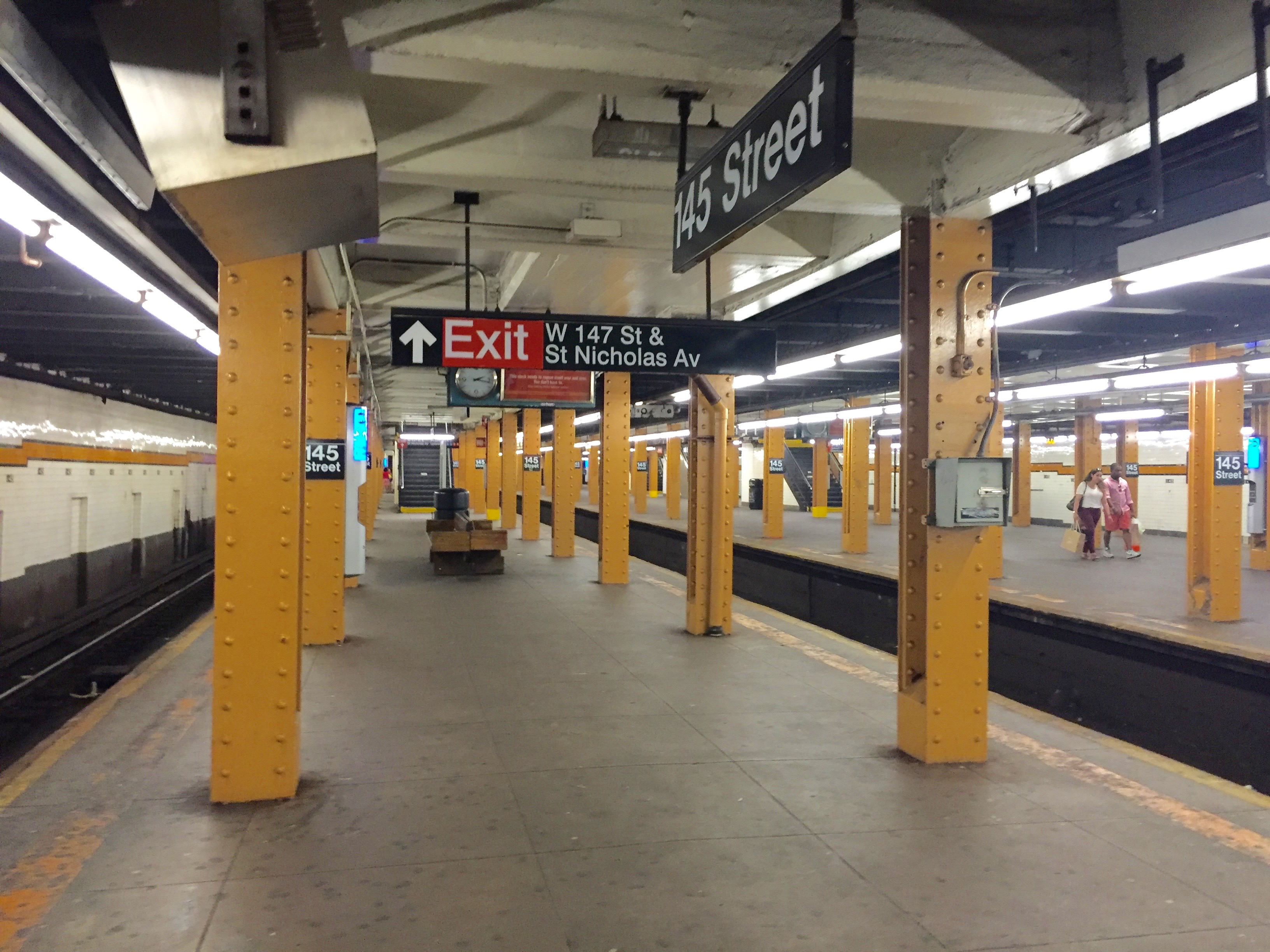 Brooklyn bound B/D platform at 145th Street.